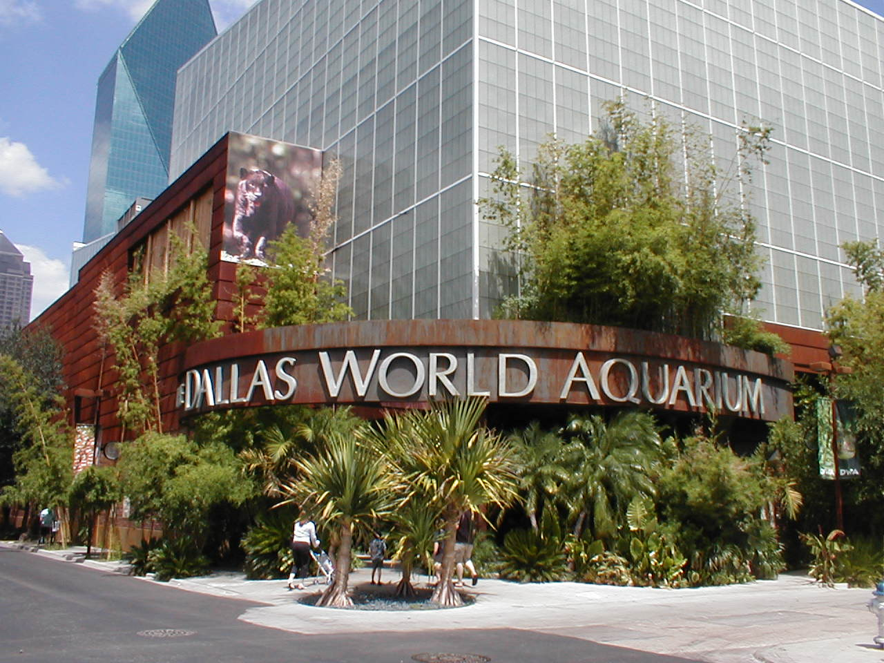 Entrance to the Dallas World Aquarium — in the West End Historic District of Downtown Dallas.